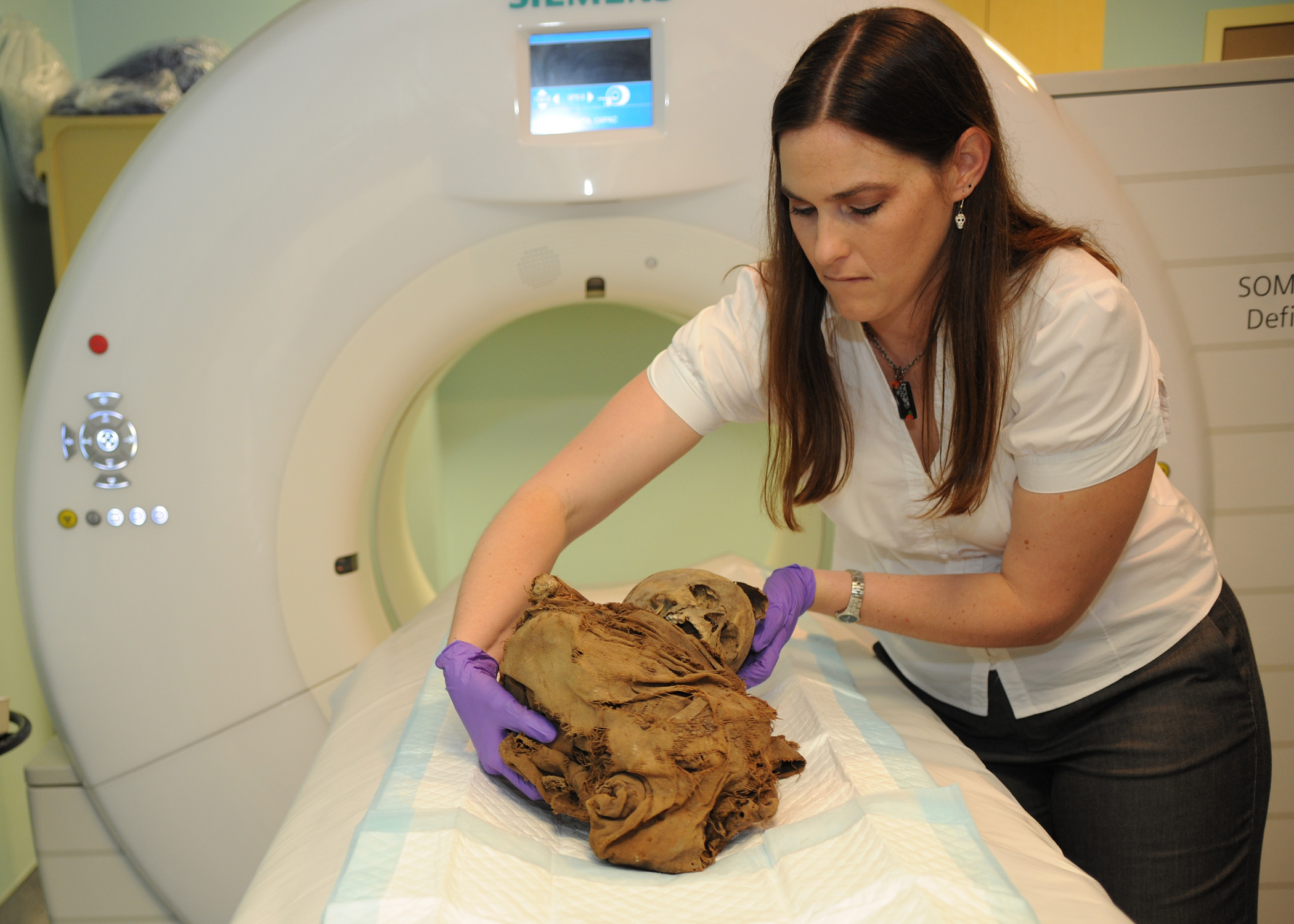 SAN DIEGO (April 27, 2011) Tori Randall, Ph.D., curator for the Department of Physical Anthropology at the San Diego Museum of Man, prepares a 550-year old Peruvian child mummy for a CT scan at Naval Medical Center San Diego. The medical center is the only medical facility in San Diego County with a Flash Dual Source 128 CT scanner that is Dual Energy capable. This unique capability uses two different energy sources to differentiate characteristics in tissue and bone beyond conventional CT imaging. (U.S. Navy photo by Mass Communication Specialist 3rd Class Samantha A. Lewis/Released)